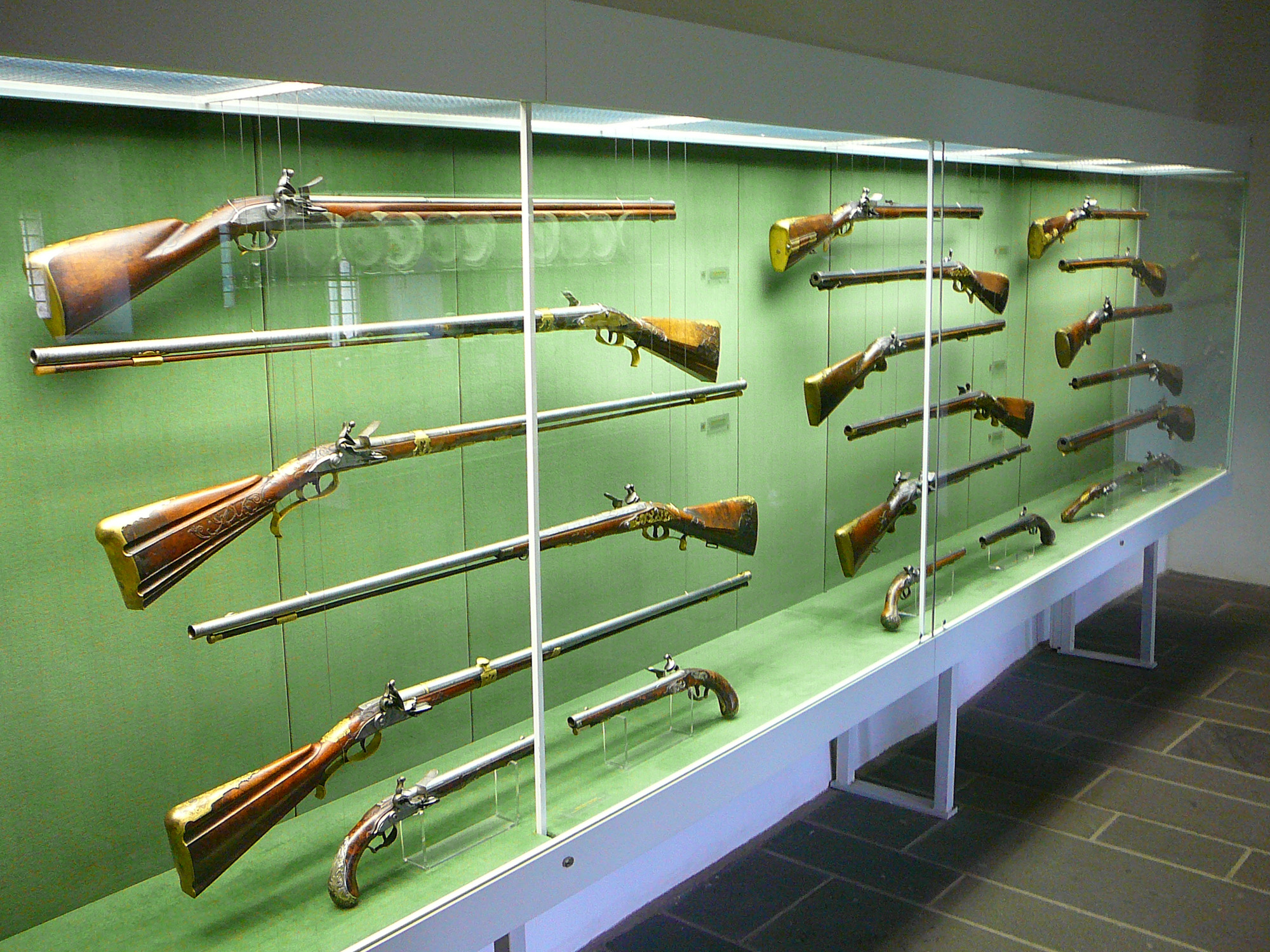 Gun collection of Burg Eltz in Rhineland-Palatinate, Germany.